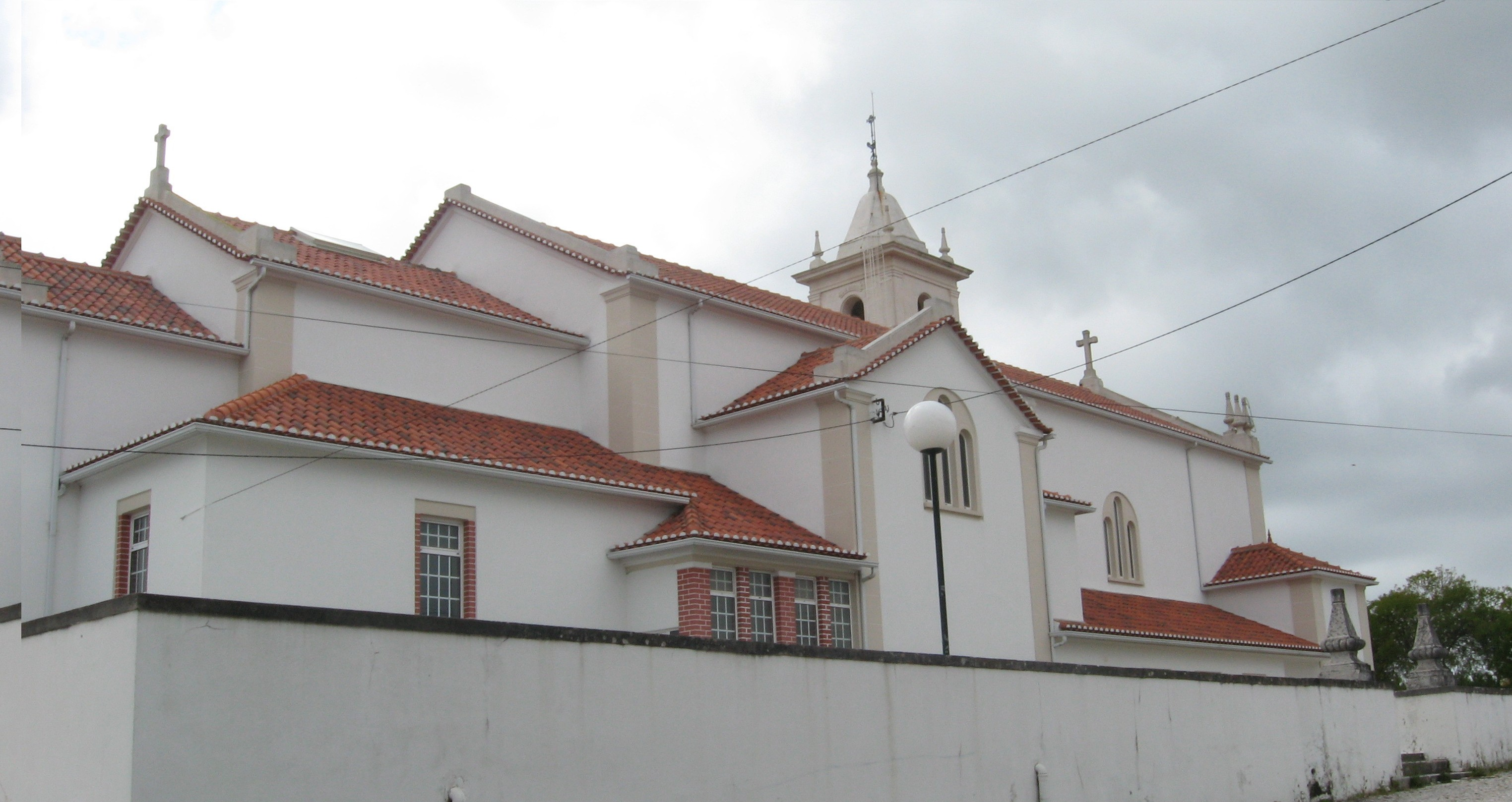 Pataias, County of Alcobaca, Coutos de Alcobaca, Portugal, Igreja Paroqial, origin 16th century, rebuilt, picture from the side, north